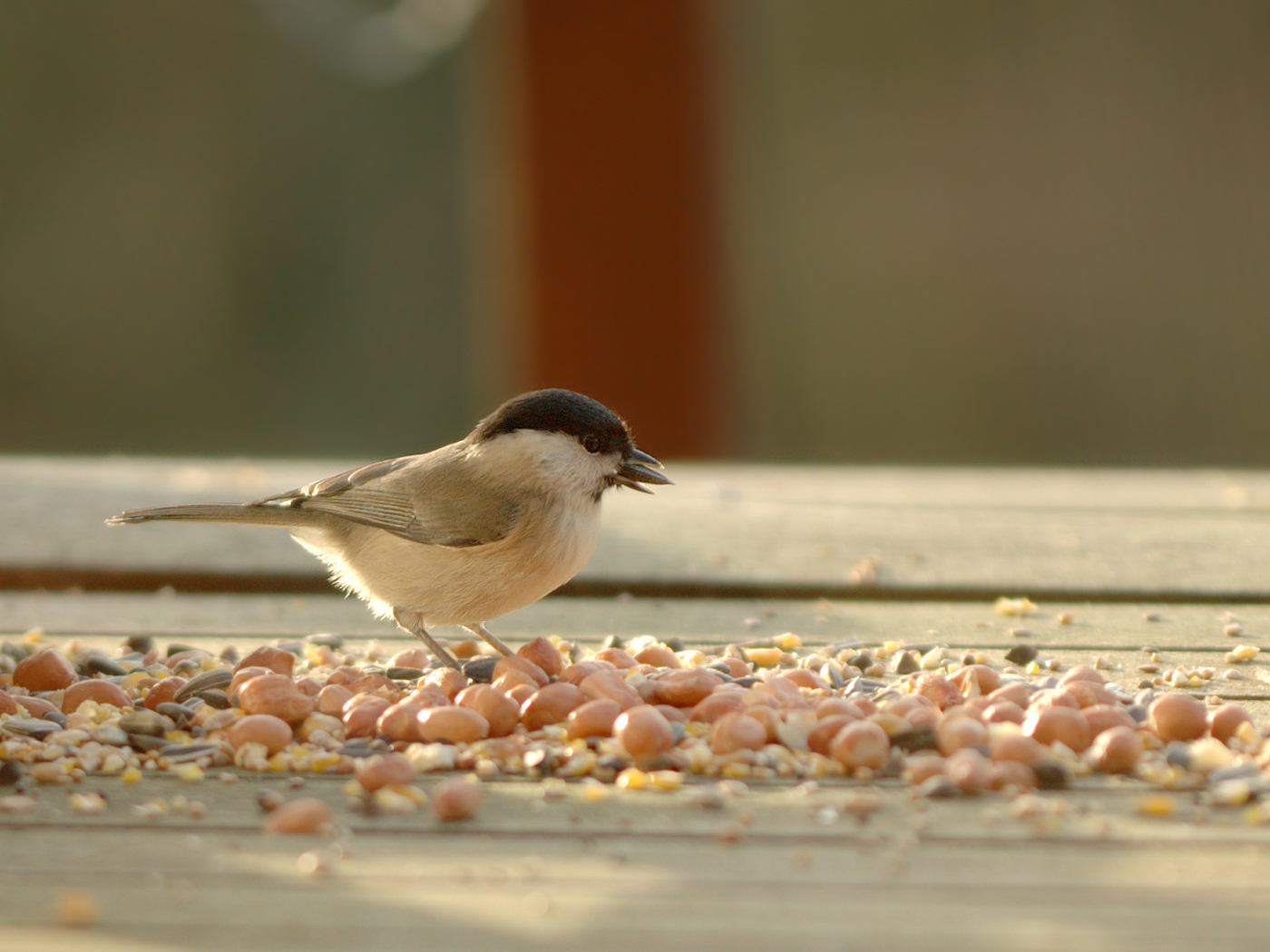 Poecile palustris Marsh Tit in Belgium (Hamois).